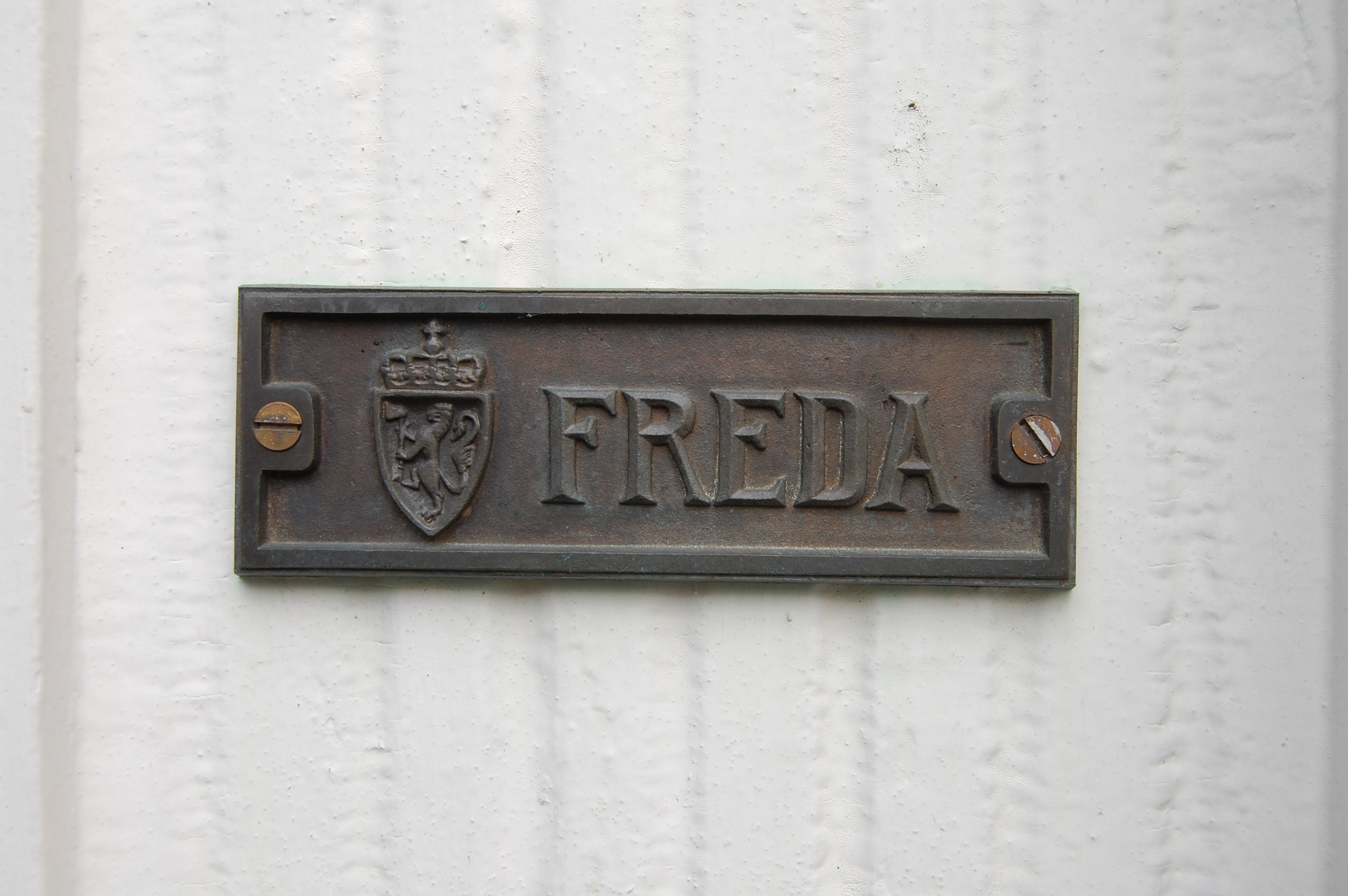 Sign